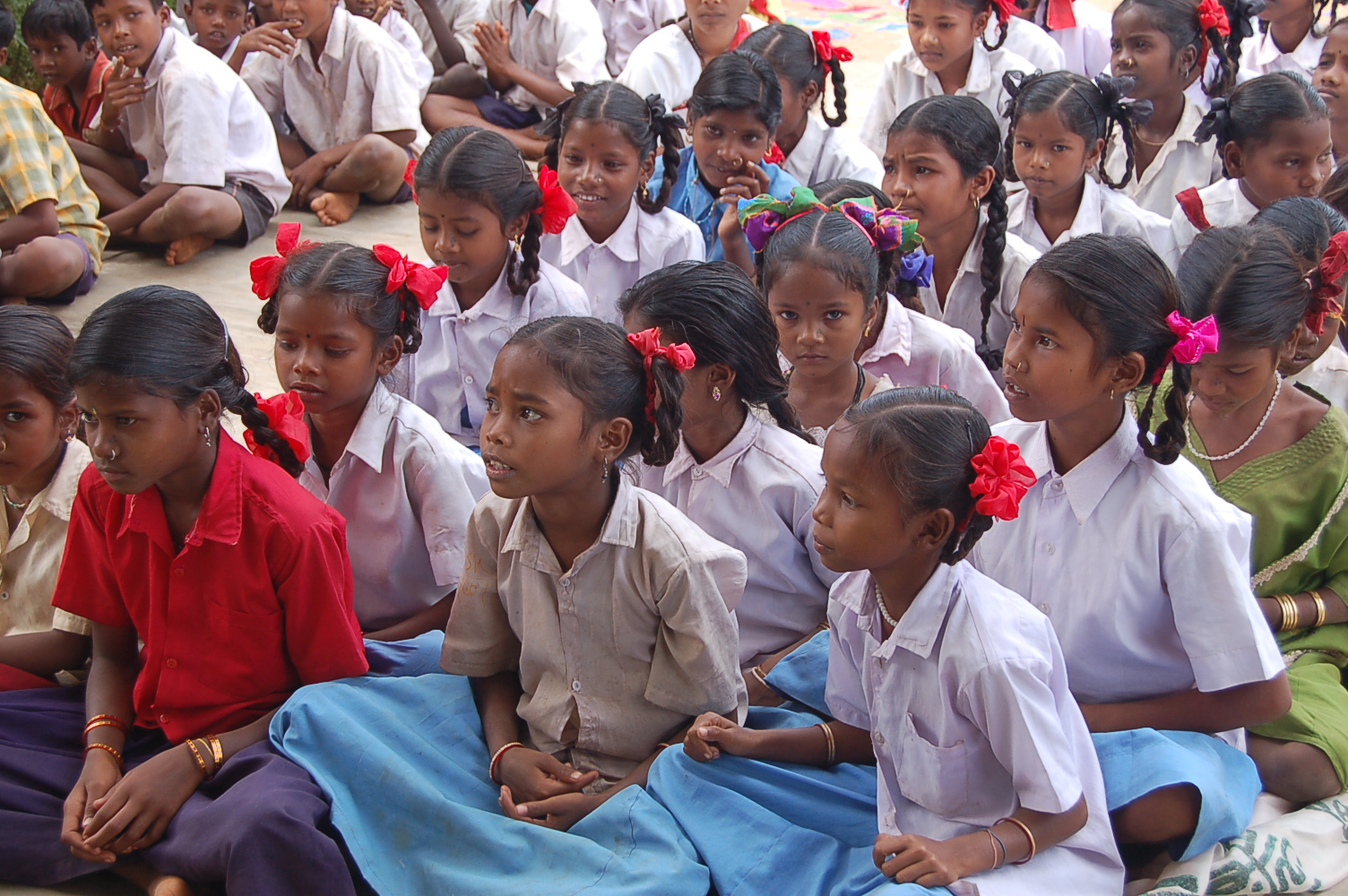 Girls students, Chhattisgarh, India.